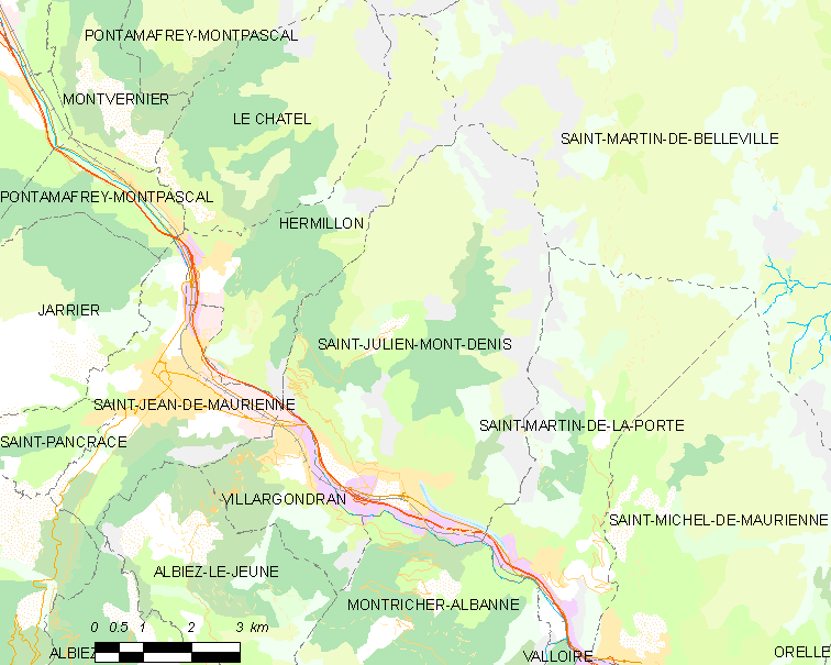 Map of French municipality